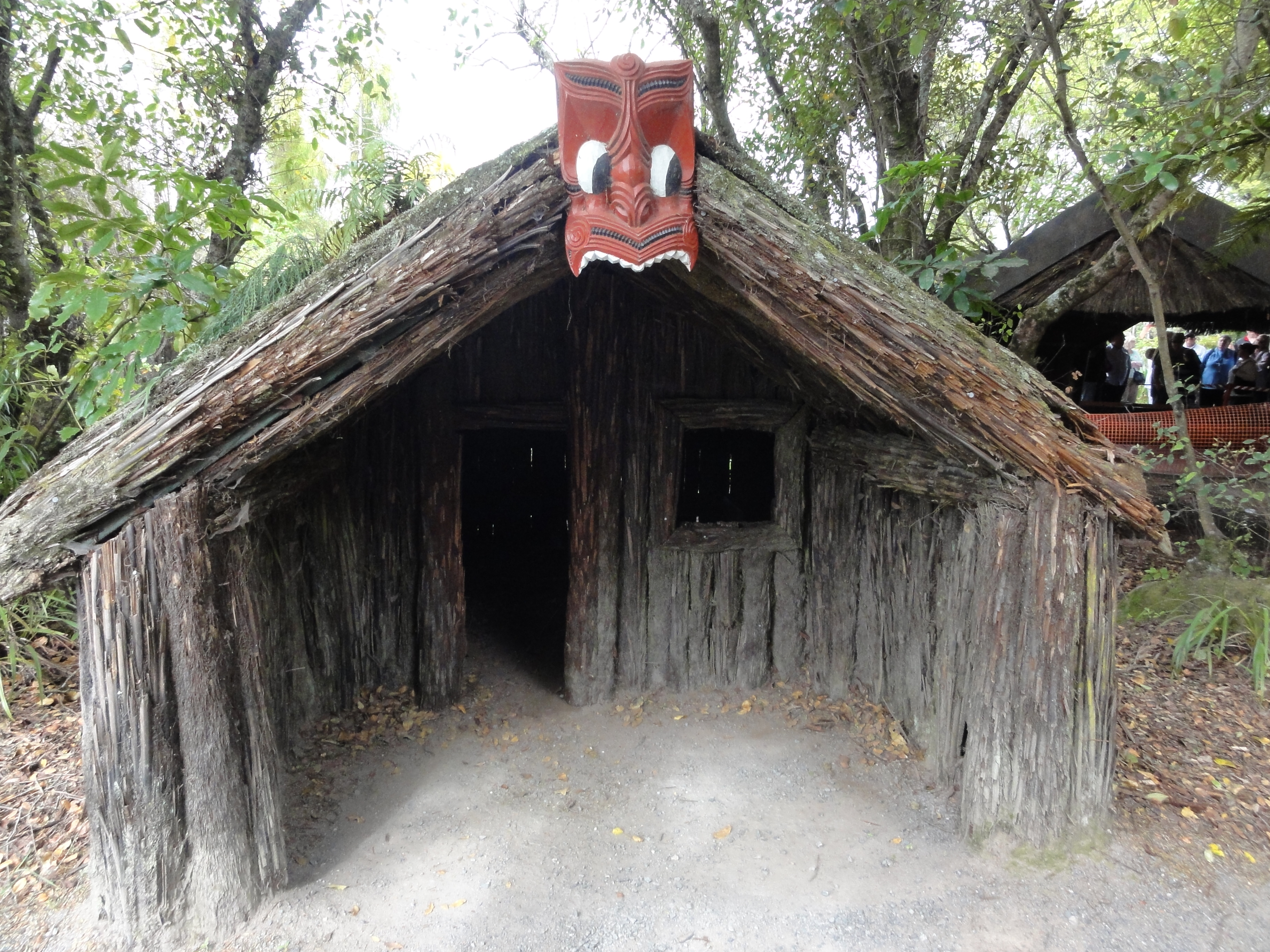 reconstruction of maori hut, Whakarewarewa, Rotorua, New Zealand